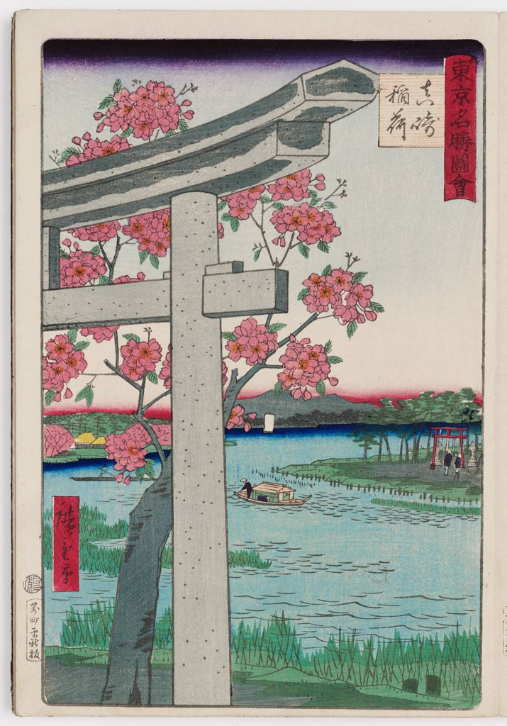 from the series Famous Places in Tokyo